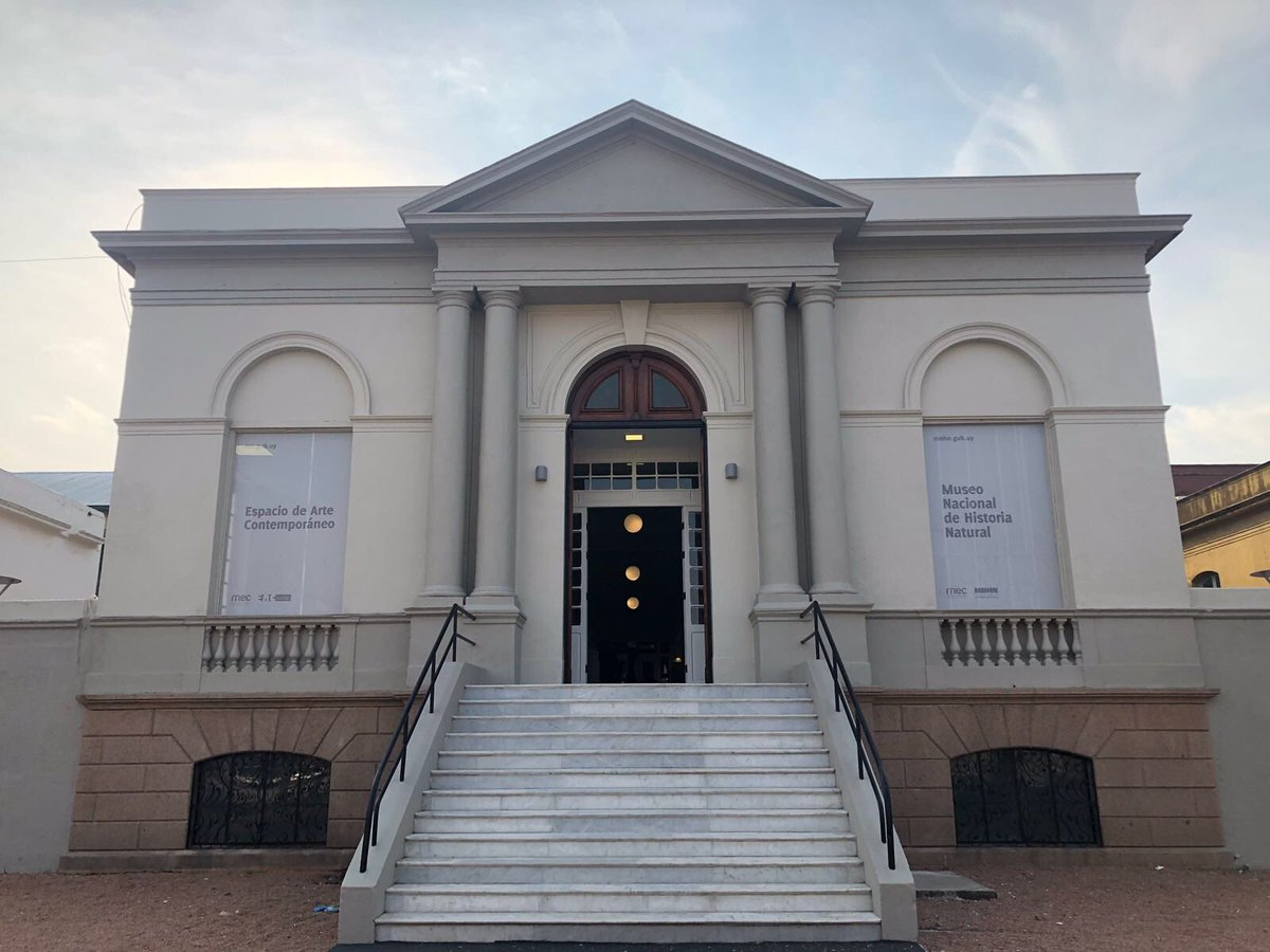 Entrance to the National Museum of Natural History in Montevideo, Uruguay